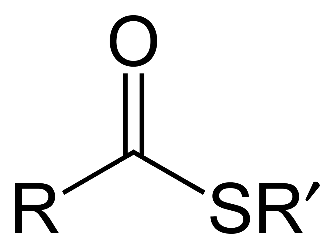 General structure of a thioester